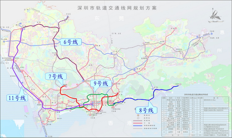 Third phase(2011-2016) of the expansion plan of Shenzhen Metro.